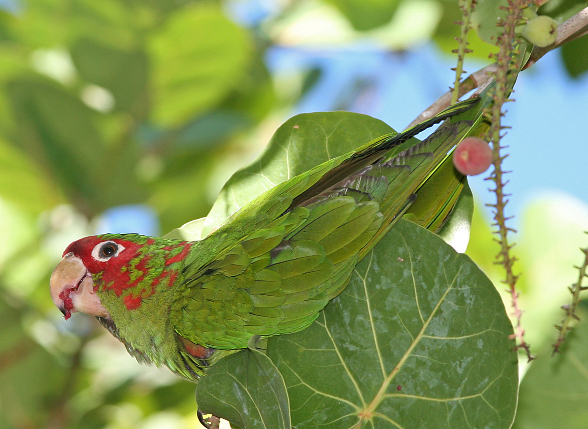 A feral Mitred Parakeet in Fort Lauderdale, Florida.